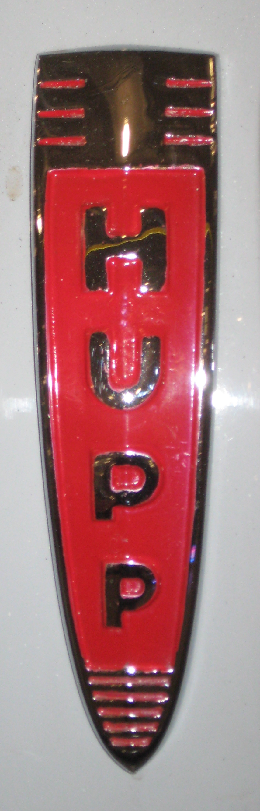 grille bade on '41 Hupp Skylark (body dies from the Cord 810), shot at 50h Anniversary Draggins car show, Praireland Exhibition, Saskatoon, 3 April 2010